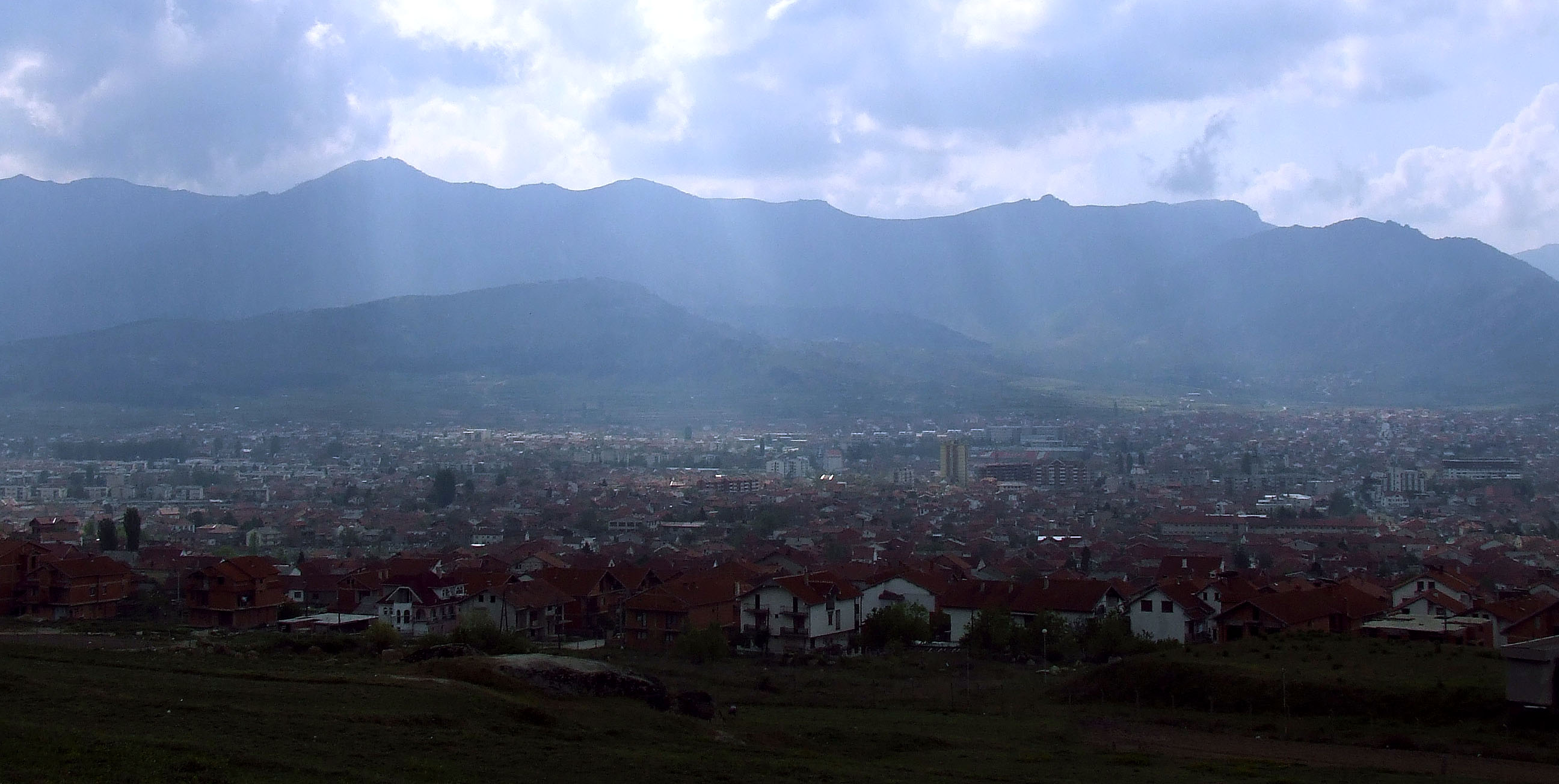 Prilep, wiew from Markova Kula